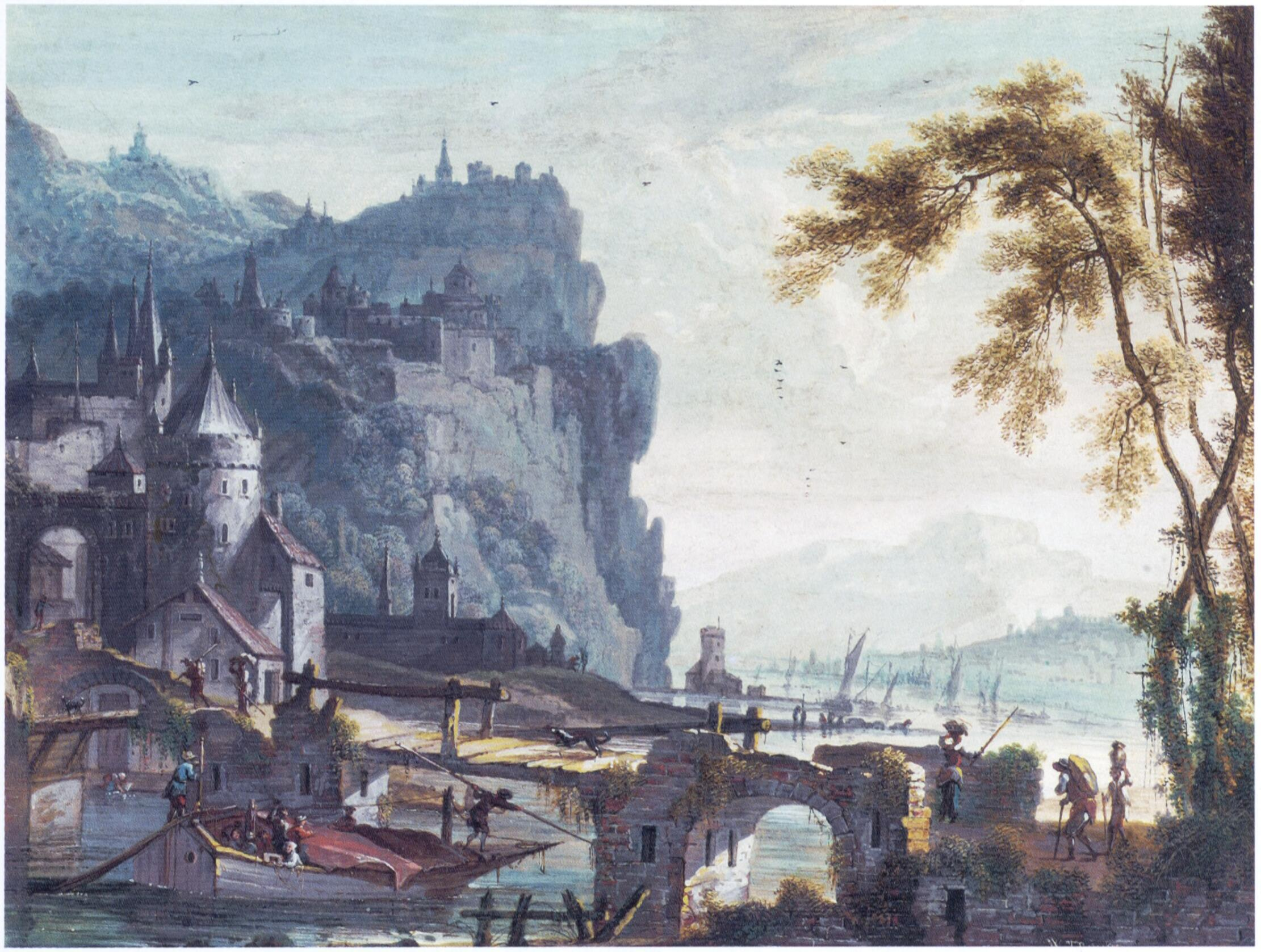 Gouache on paper - fantasy Rhine landscape with castle town